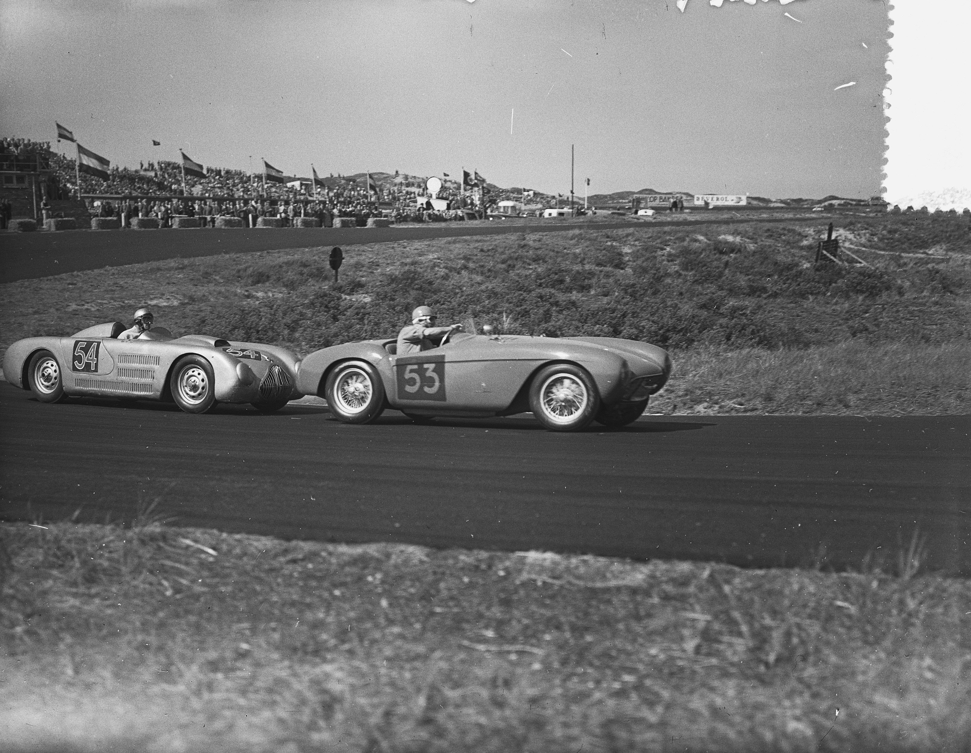 Leading here is a 1954 Ferrari Mondial 500 Pinin Farina s/n 0434MD (#53) driven by dutchman Herman Roosdorp at the Zandvoort Circuit on June 7, 1954.[1] The other car (#54) is unknown.